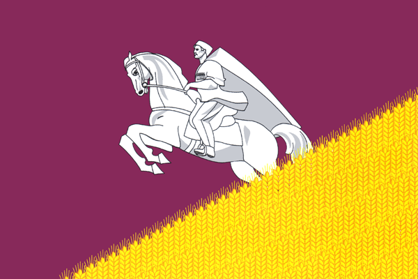 Kushchevsky rayon (Krasnodar krai), flag